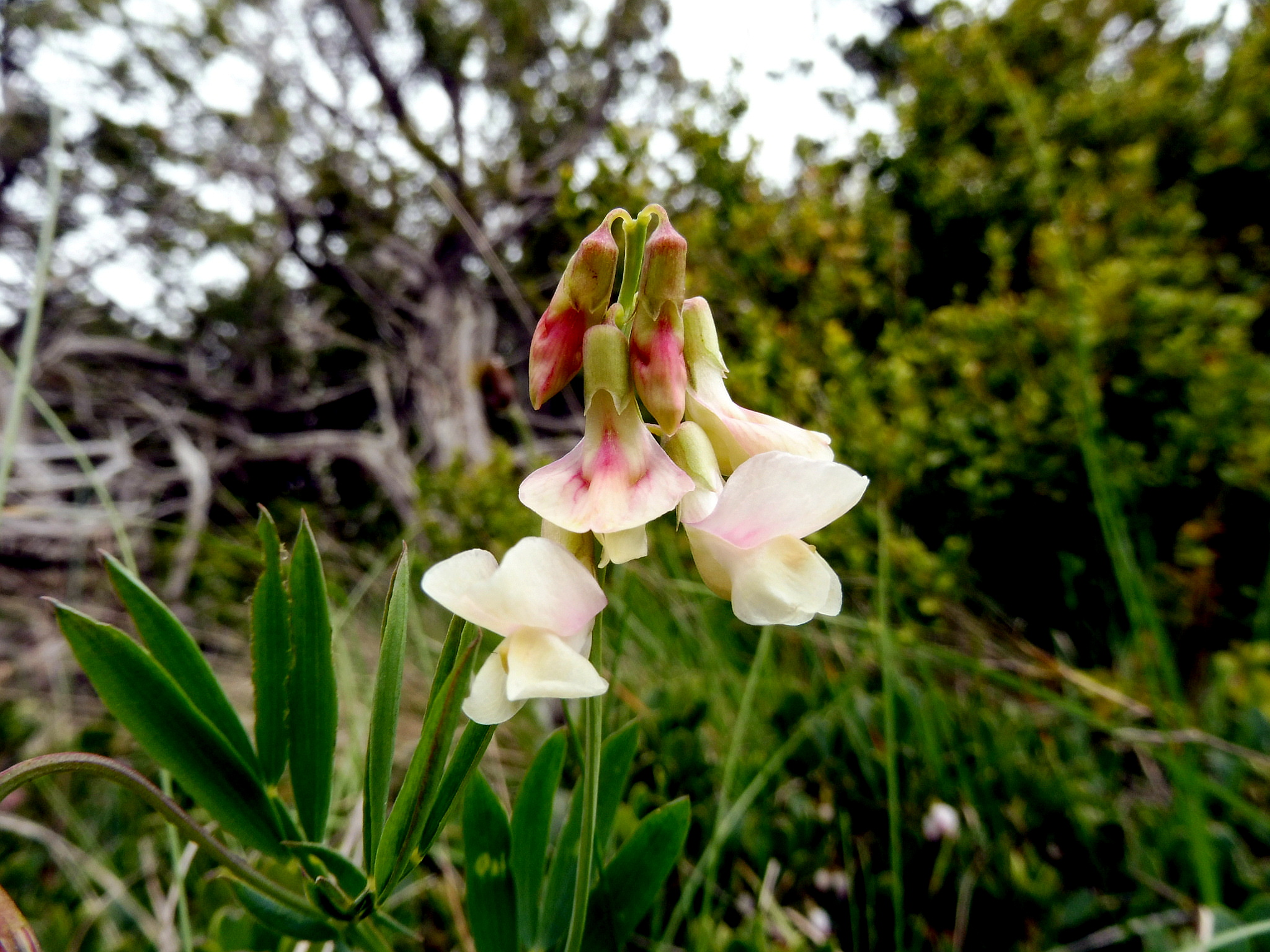 Lathyrus pannonicus. In Montsec de Rúbies (Pallars Jussà-Catalunya). To 1.360 m. altitude This is a a photo of a natural area in Catalonia, Spain, with id: ES510192